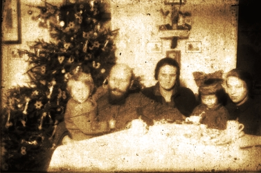 Kazimierz Nowak with family - a Polish traveller, correspondent and photographer. Probably the first man in the world who crossed Africa alone from the North to the South and from the South to the North (from 1931 to 1936; on foot, by bicycle and canoe).